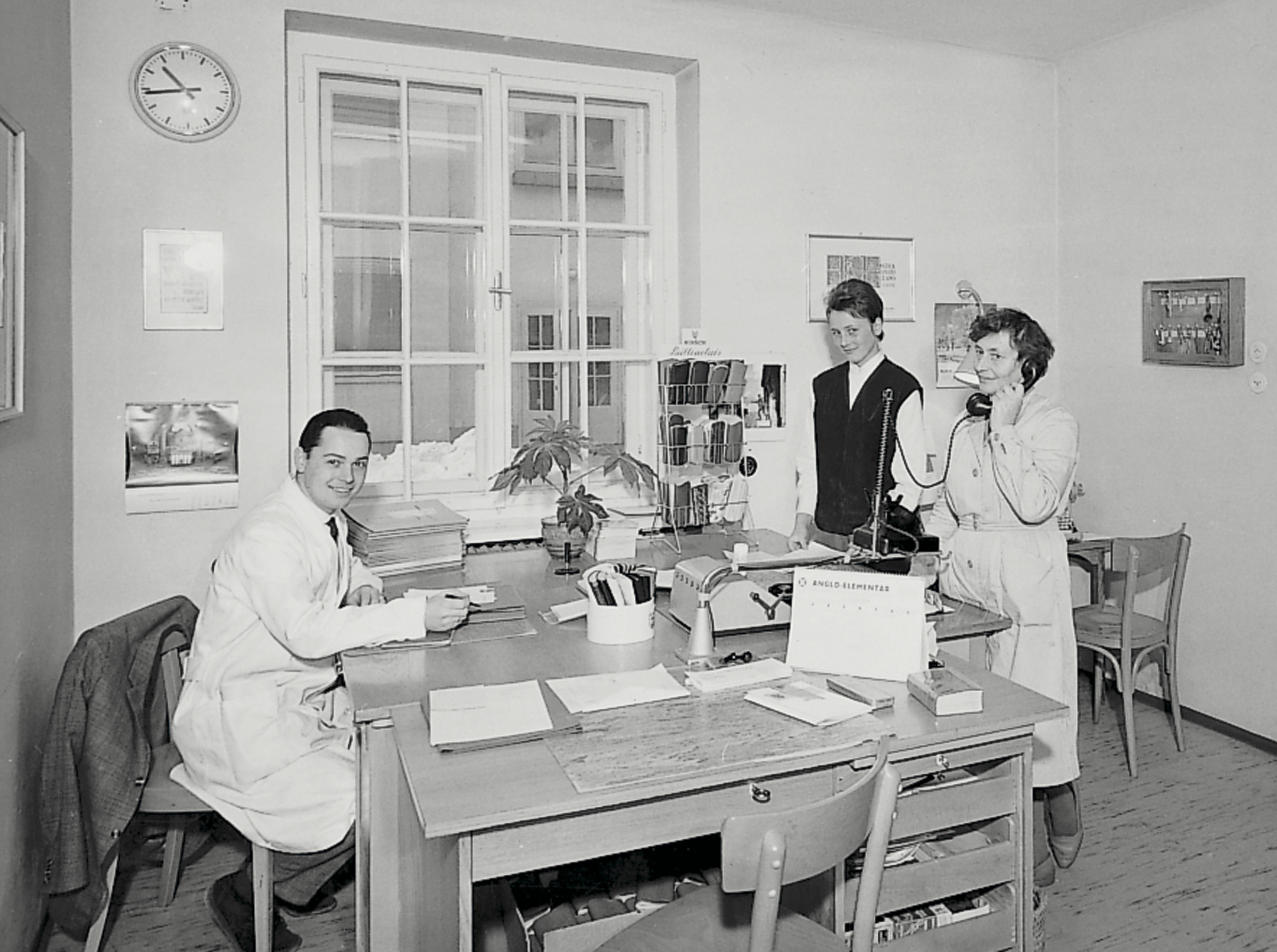 Hermann Hirsch with 2 employees